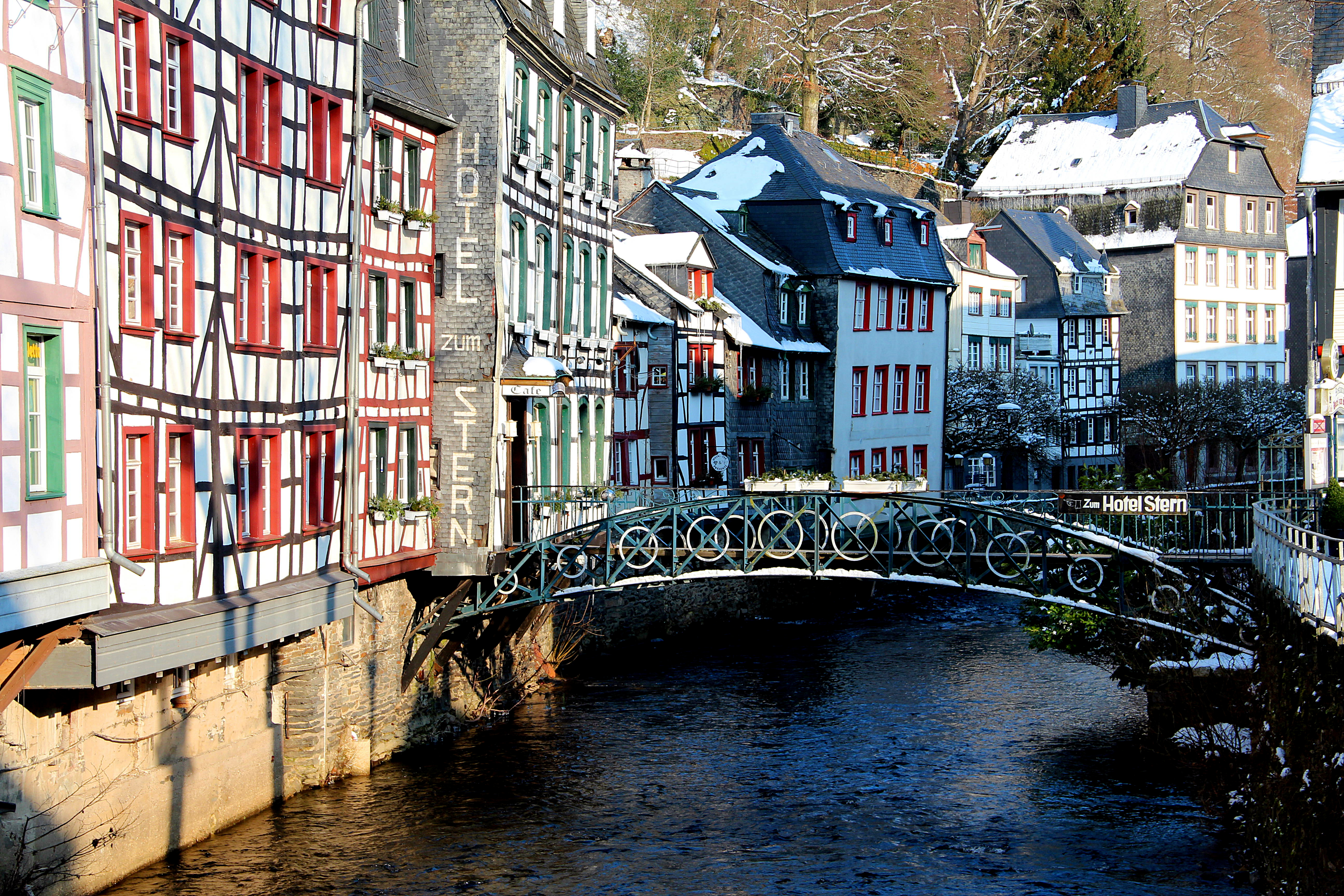 Monschau (Germany), half-timbered houses of the Eschbachastraße along the left bank of the Rur and the gateway of the Hotel zum Stern.